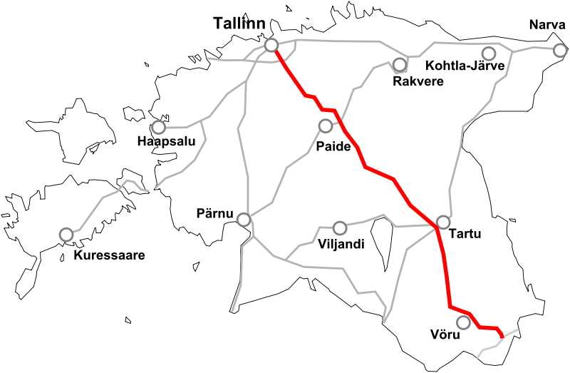 Map of the Estonian national road 2, white background. Bigger cities also marked.